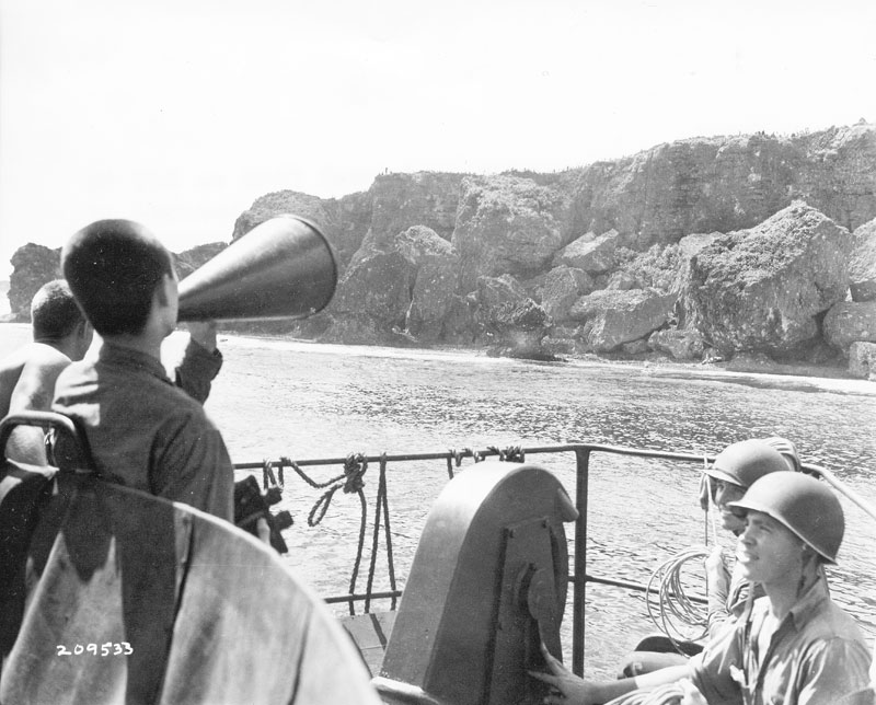 A Japanese prisoner of war with a loud hailer during the Battle of Okinawa